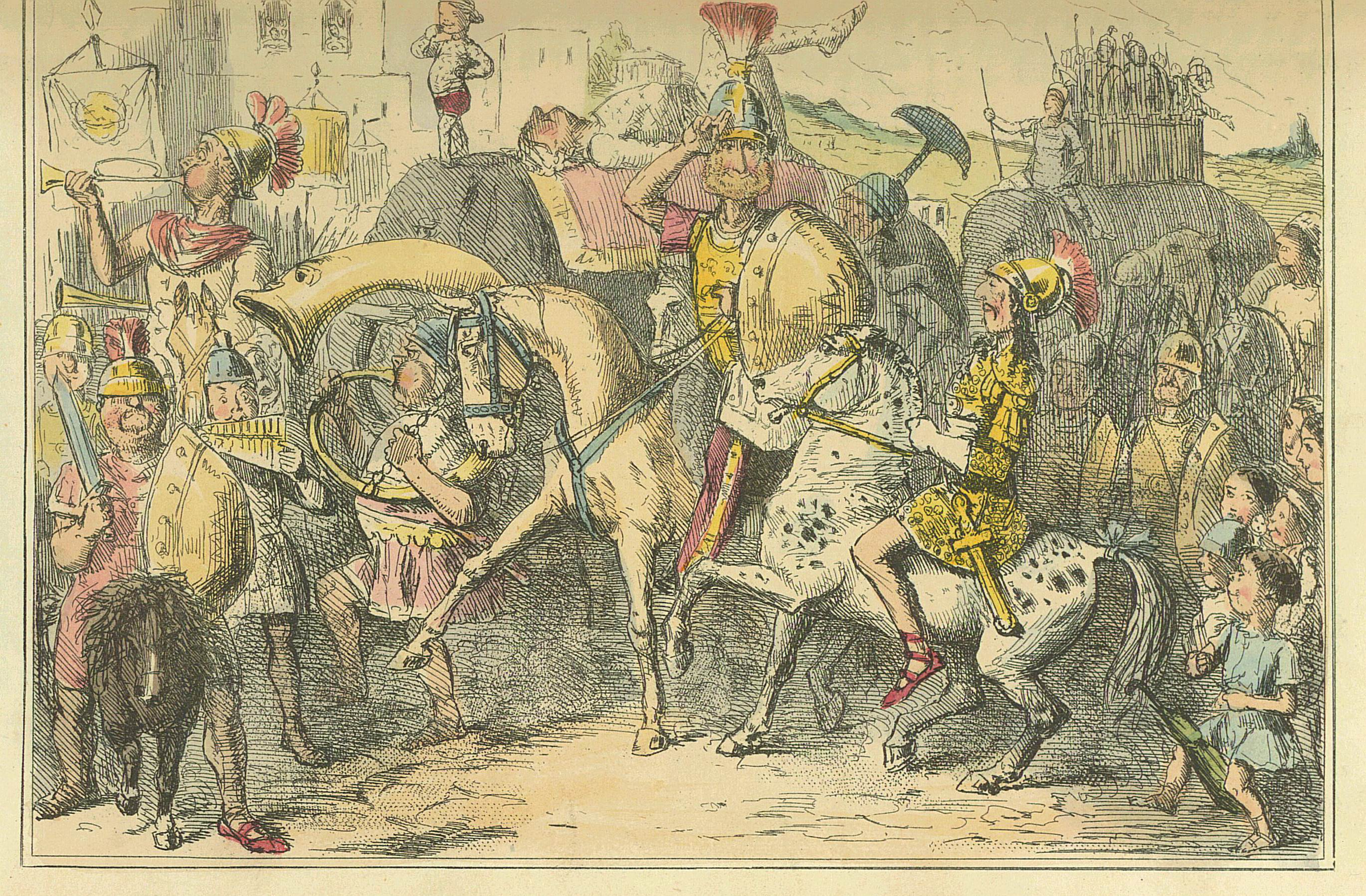 Image by John Leech, from: The Comic History of Rome by Gilbert Abbott A Beckett. Bradbury, Evans & Co, London, 1850s Pyrrhus arrives in Italy with his Troupe